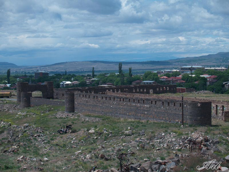 Ashtarak town, Armenia.